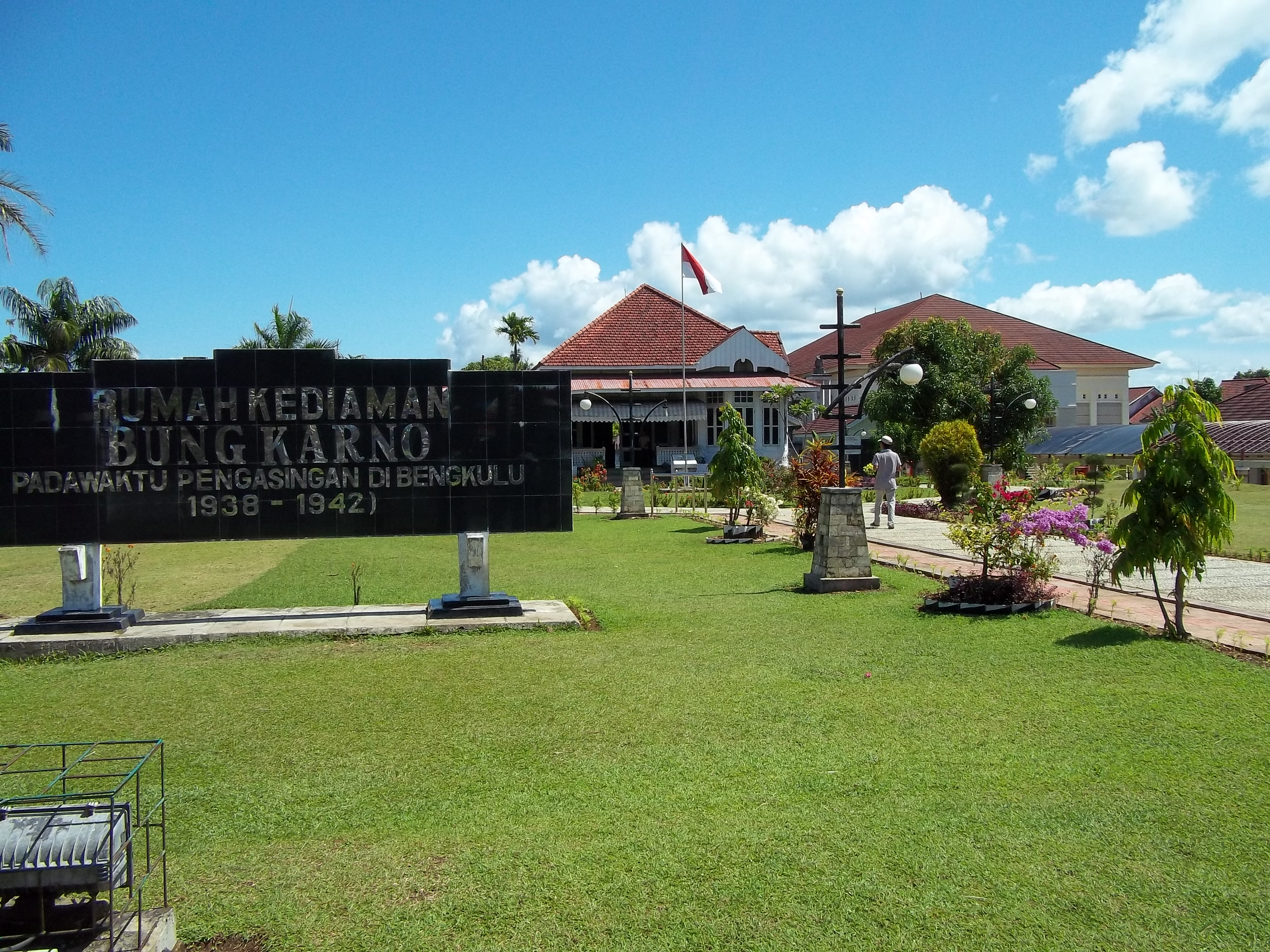 Soekarno's house while in exile in Bengkulu